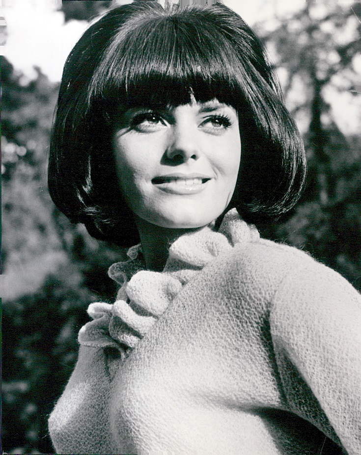 Actress Nina Wayne starring as Caprice Yeudelman in the television series Camp Runamuck, Episode 2 (Rabbits of the World Unite)